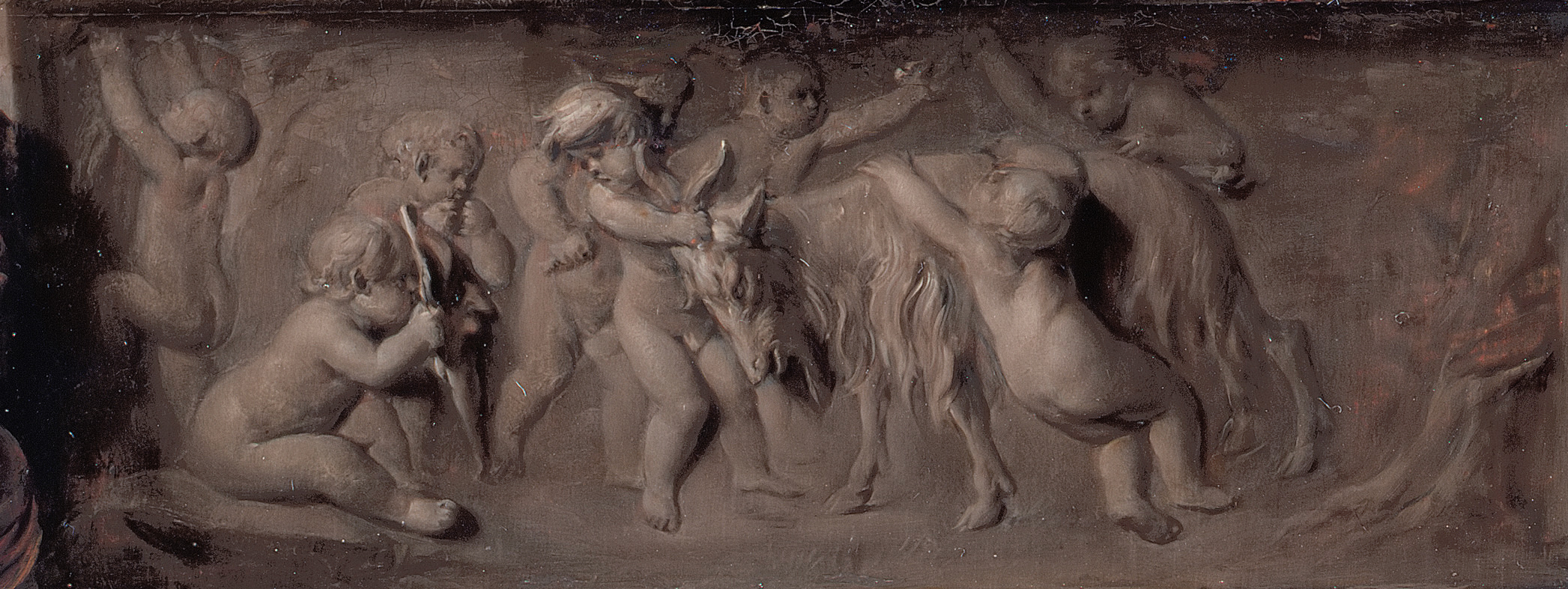 Detail of a grisaille of a relief by Francois Duquesnoy (in Galleria Doria, Rome) underneath the windowsill, seen in The Grocer’s Shop. Dou must have had a plaster cast of the relief in his studio, as this attribute is repeated in many of his niche paintings